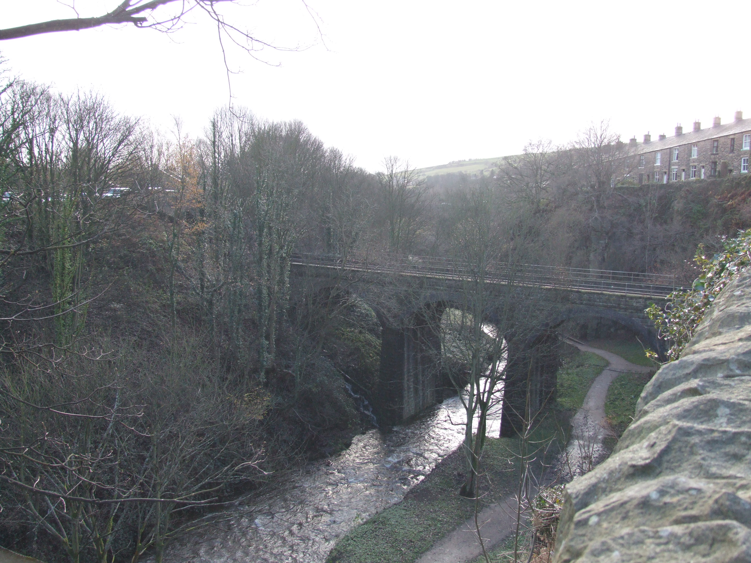 The Torrs is a gorge through Woodhead Hill Sandstone in New Mills, a village in the Peak District. It lies at the confluence of the River Sett and the River Goyt. Looking downstream over the 1864 viaduct. - Google Maps - Google Earth